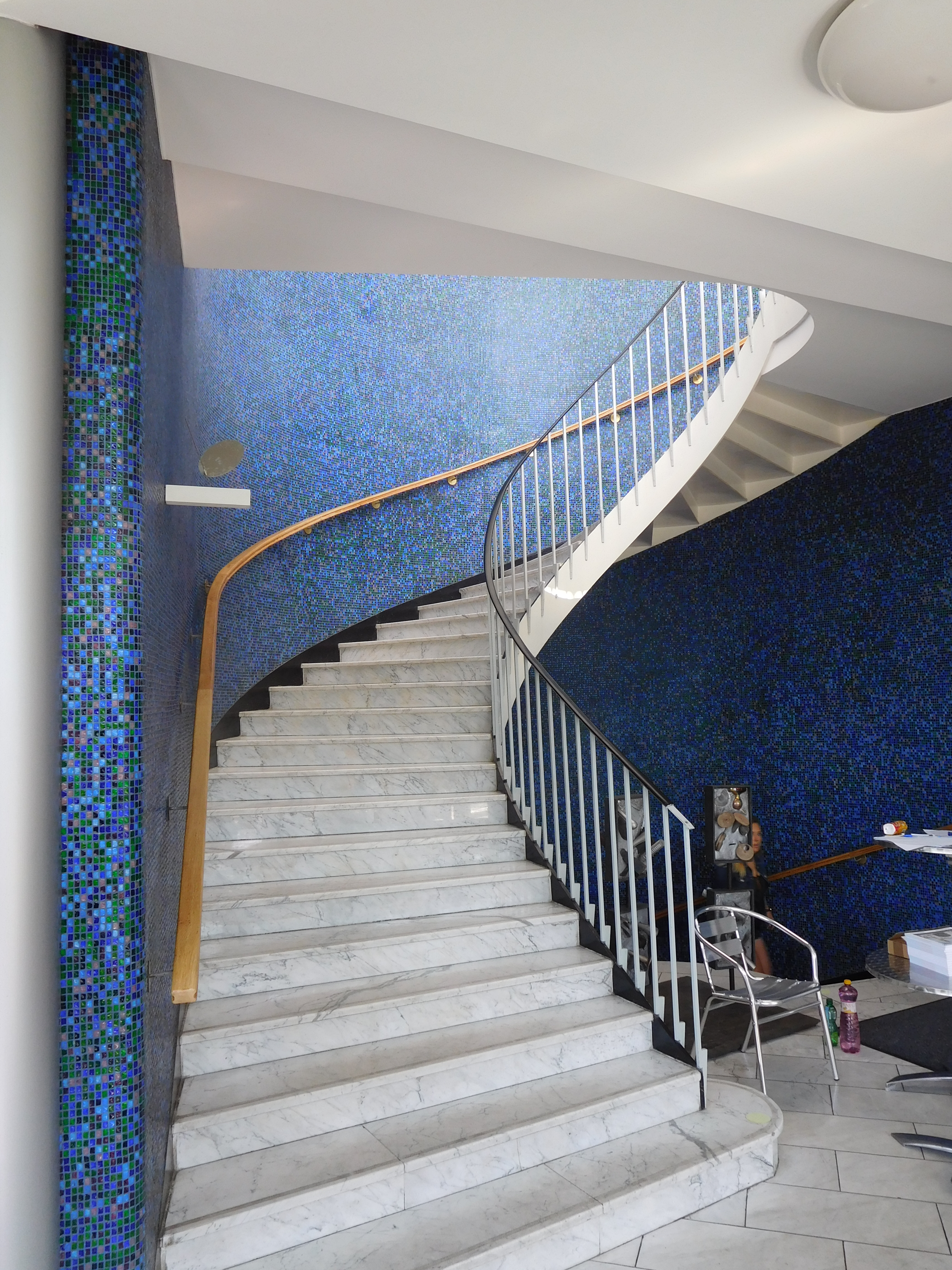 Czech Expo 58 Pavilion in Prague - main staircase